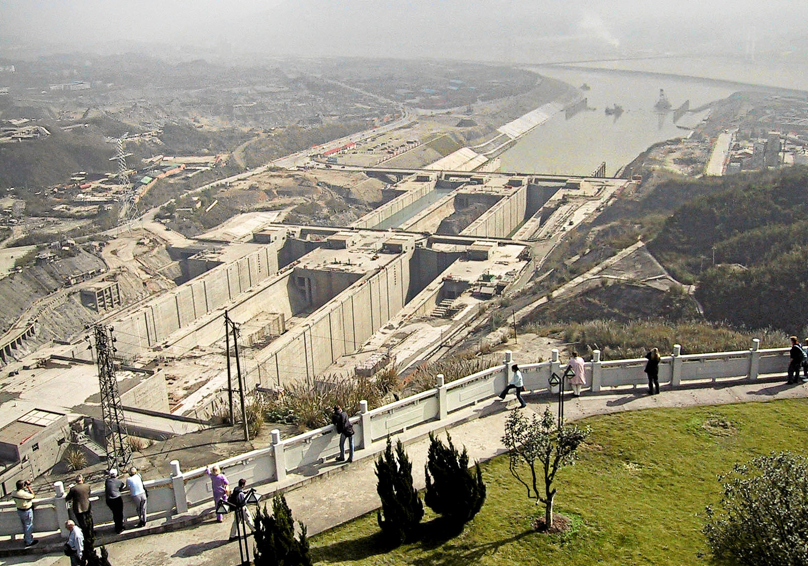 Ship locks of the Three Gorges Dam (Yangtze River) - building phase 2002